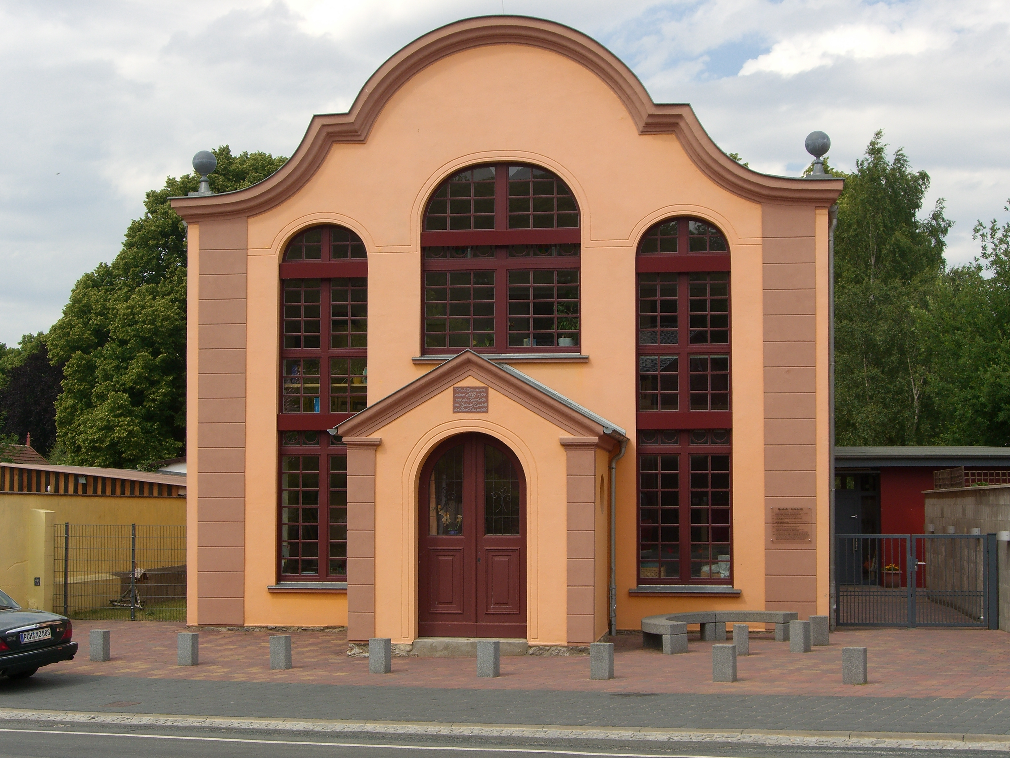 Plau am See, Bergstrasse 28 (Kindergarten)